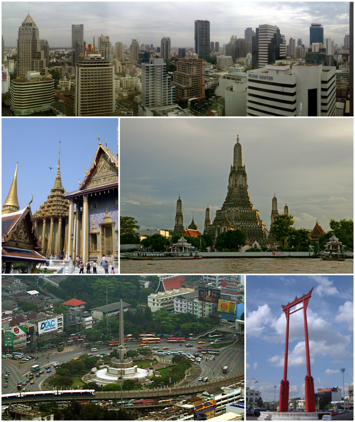 Photo montage of Bangkok—Clockwise from top: Si Lom – Sathon business district; Wat Arun; the Giant Swing; Victory Monument; Wat Phra Kaew